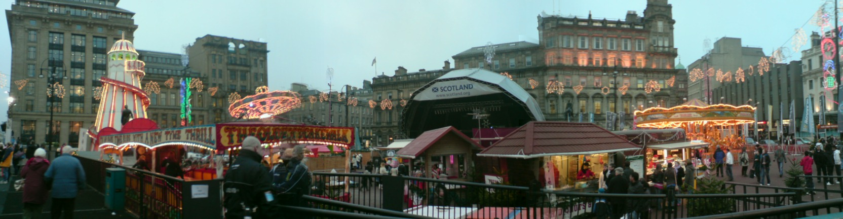 George Square, Glasgow with Christmas decorations